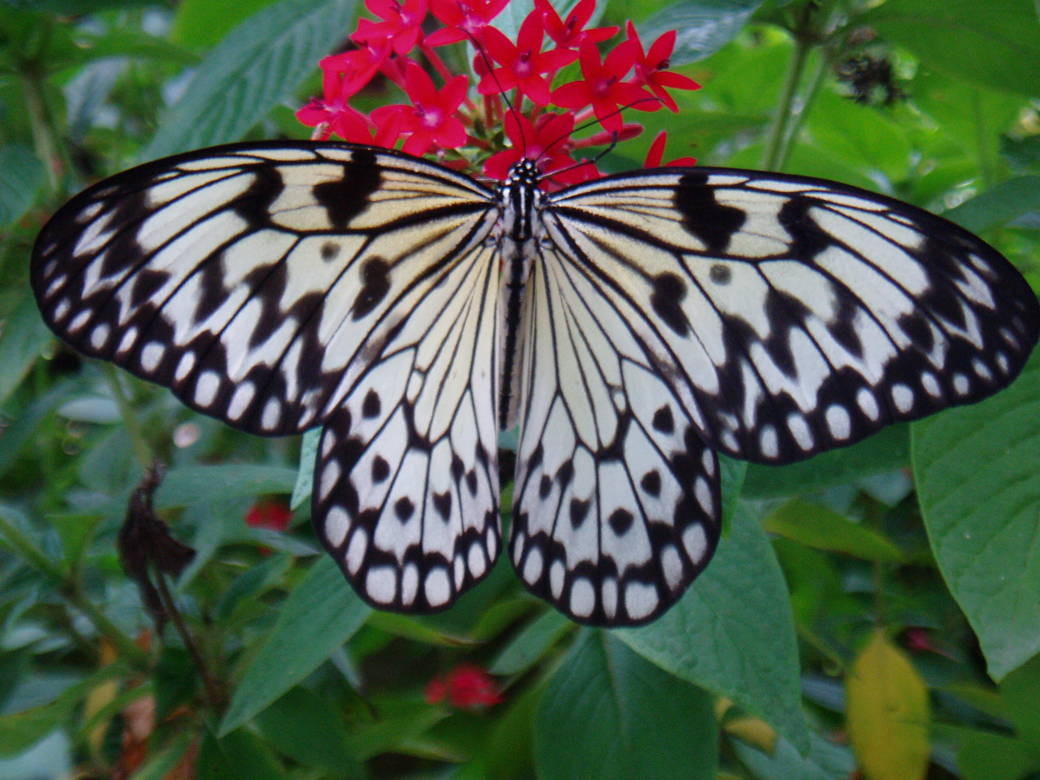 Image taken at Butterfly World Paper Kite butterfly